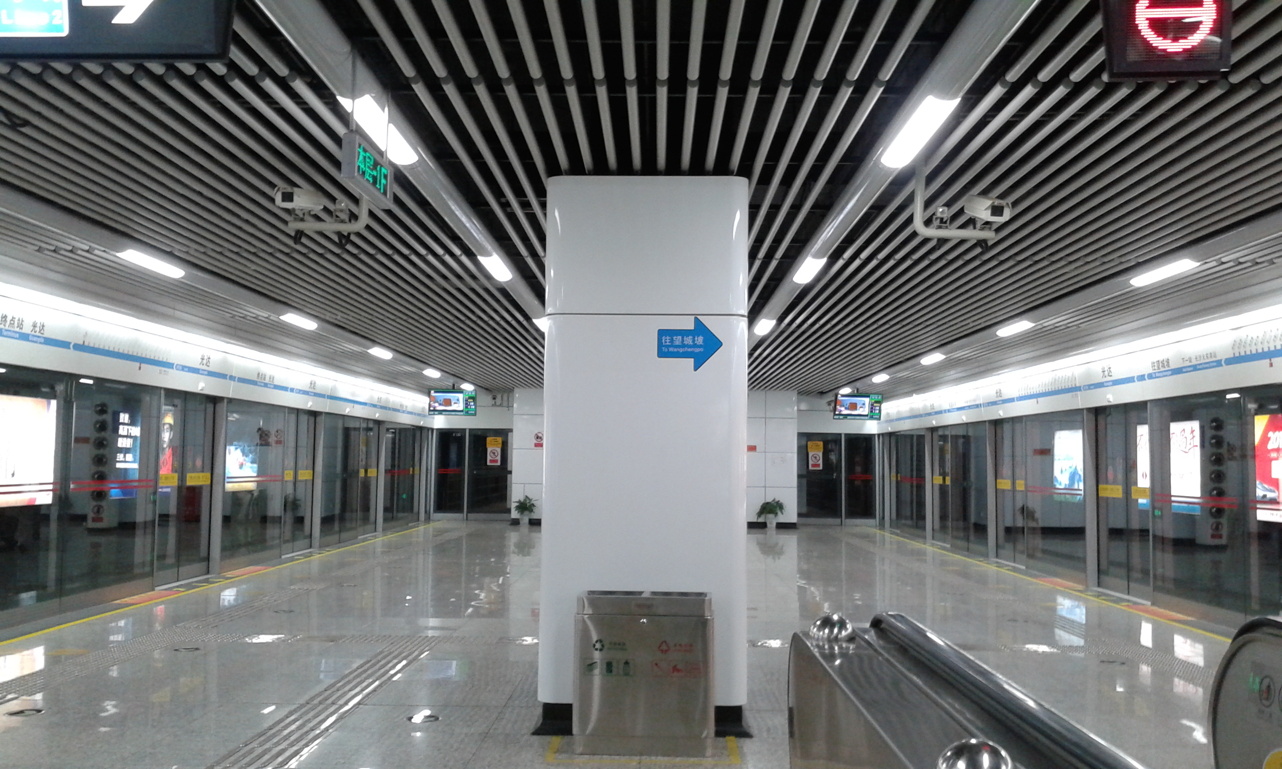 Platform in Guangda Station, Changsha Metro